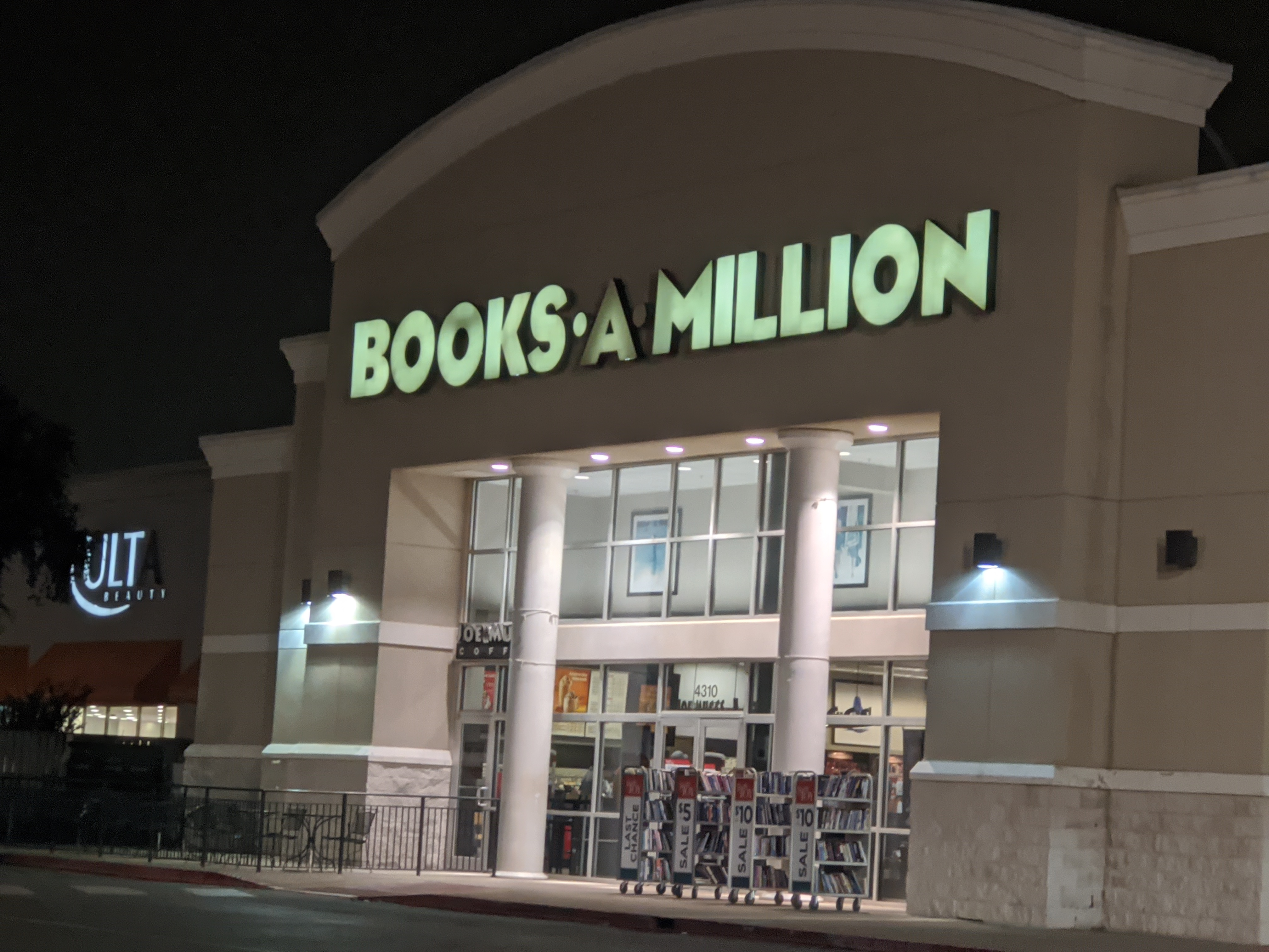 Bam! store in abilene